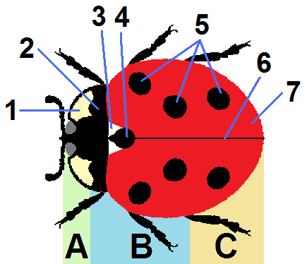 Illustration of monographs Georgiy Jacobson "Beetles Russia and Western Europe". Publisher: Devriena company. The first issue was released in 1905, the last - in 1915. Illustrations were mostly taken from the publication CG Calwers Kaeferbuch. Part of illustrations drawn O. Somina